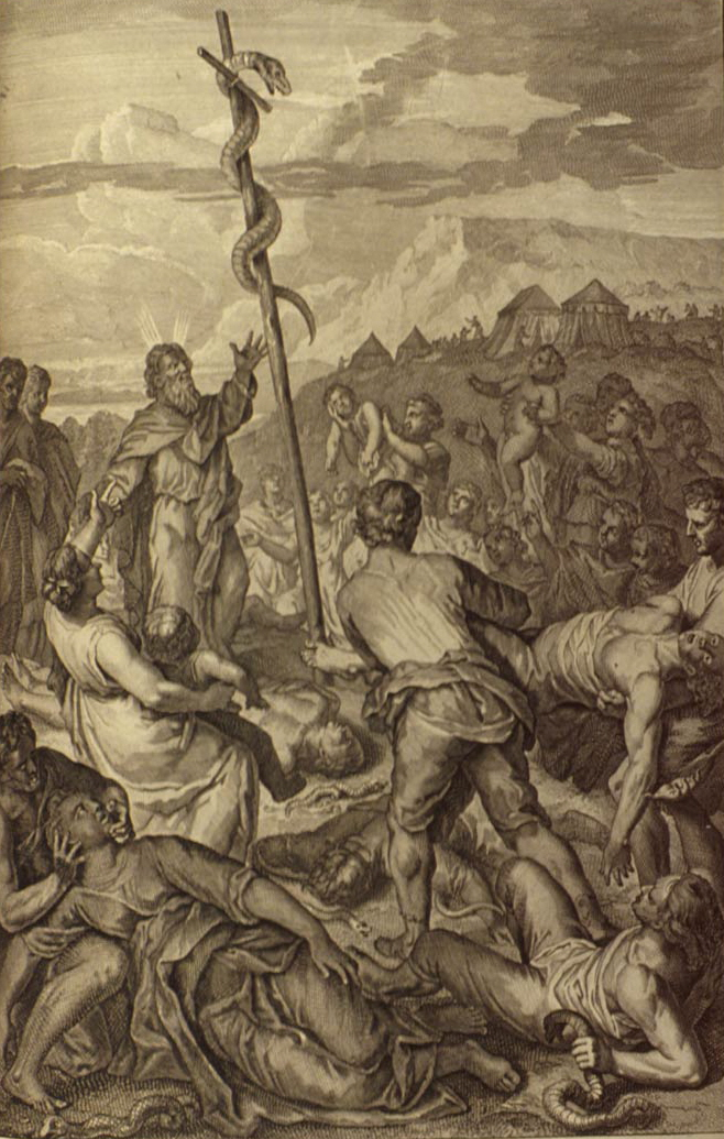 Moses fixes the brazen Serpent on a pole, as in Numbers 21:6-9, illustration from the 1728 Figures de la Bible, illustrated by Gerard Hoet (1648-1733), and others, published by P. de Hondt in The Hague in 1728; image courtesy Bizzell Bible Collection, University of Oklahoma Libraries